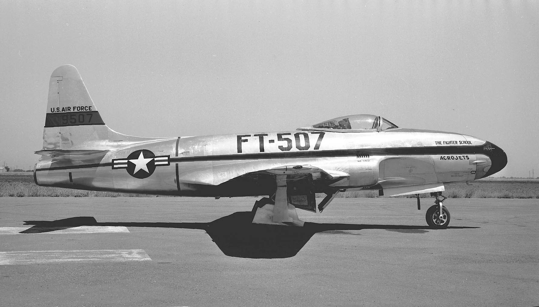 Stockton, California, 1949.